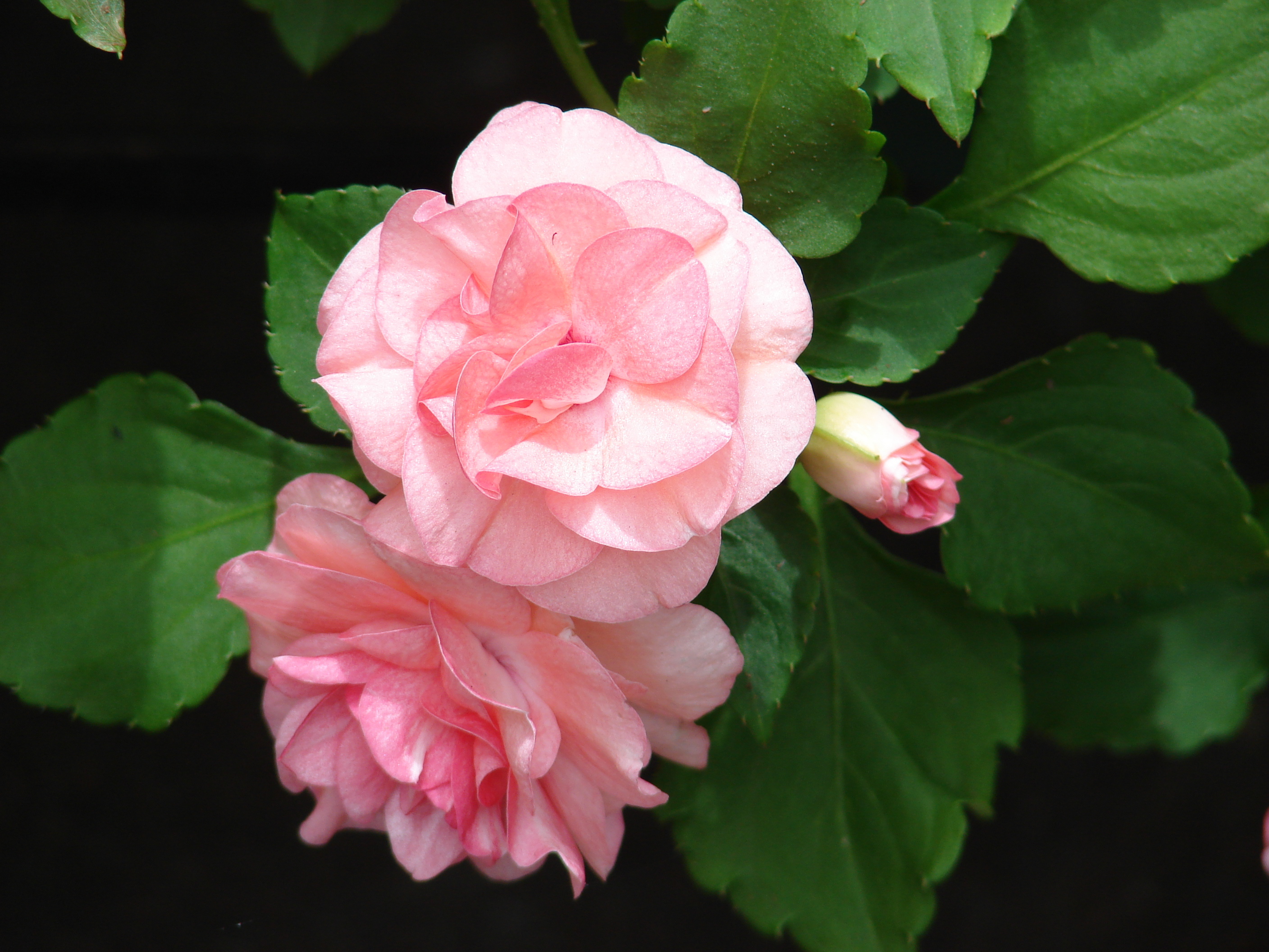 Impatiens walleriana (double pink flowers). Location: Maui, Kula Ace Hardware and Nursery